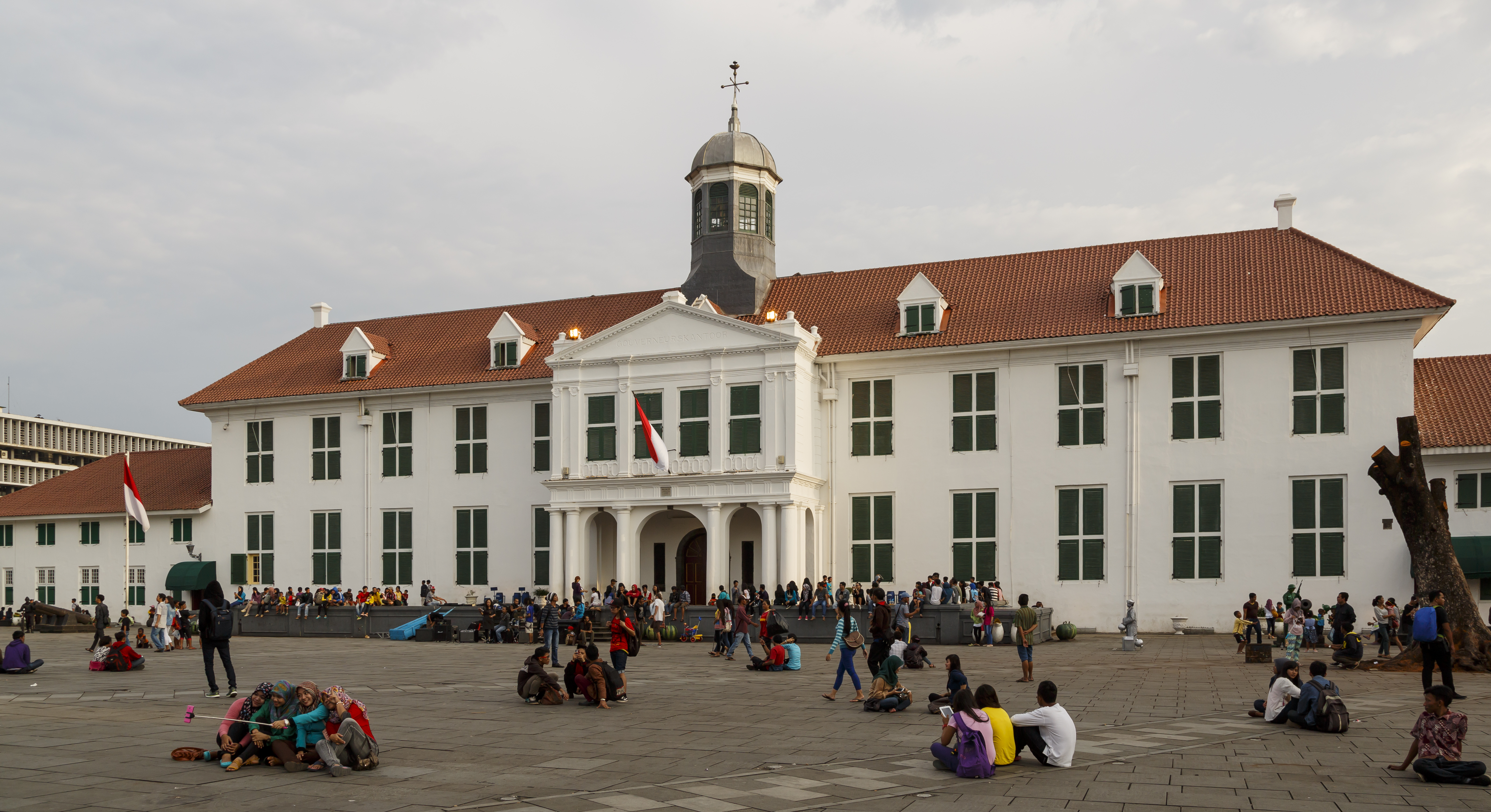 Jakarta, Indonesia: Jakarta History Museum at Fatahillah Square.